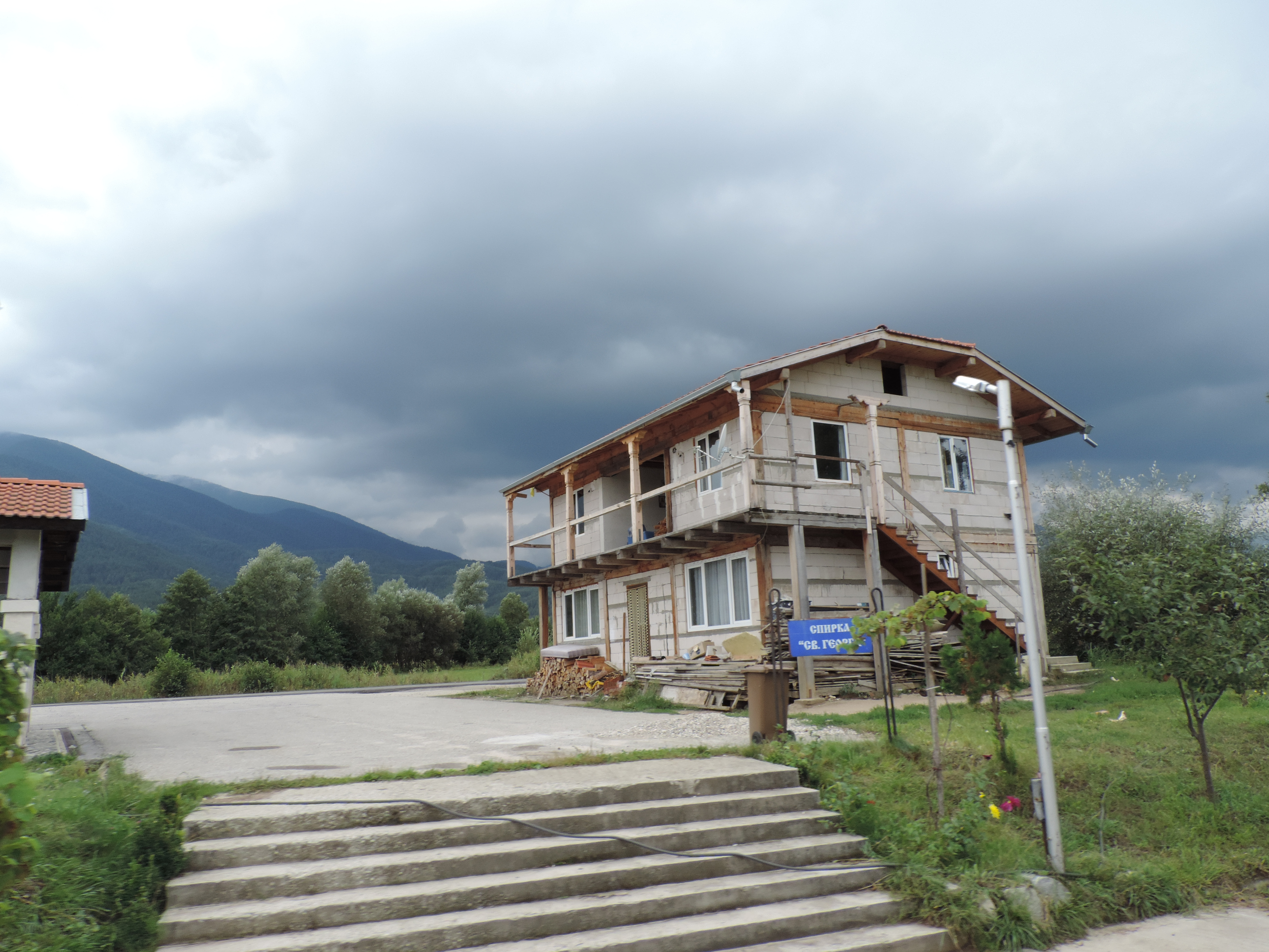 St Georgi railway station, Bulgaria